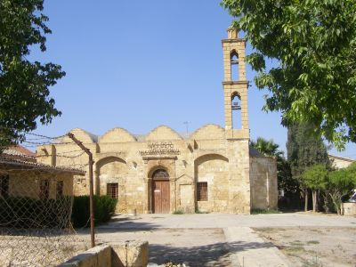 The Agios Loukas church in Nicosia, Cyprus - northern (Turkish) part